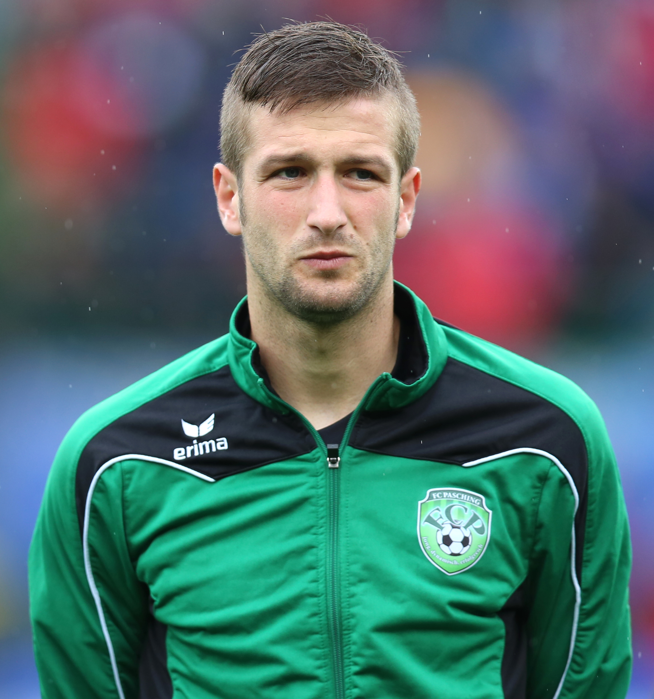 ÖFB-Cupfinale am 30. Mai 2013 im Ernst-Happel-Stadion (FC Pasching gegen FK Austria Wien 1:0). Im Bild der Mittelfeldspieler Ivan Kovačec (FC Pasching). The making of this work was supported by Wikimedia Austria. For other files made with the support of Wikimedia Austria, please see the category Supported by Wikimedia Österreich.